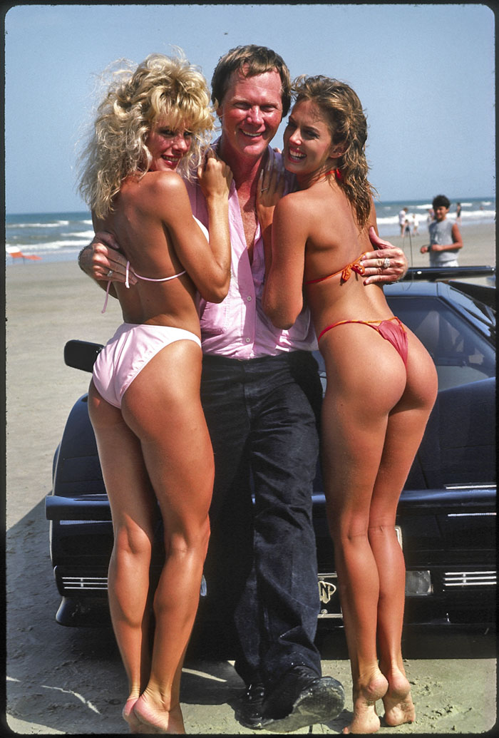 Ron Rice, founder of Hawaiian Tropic